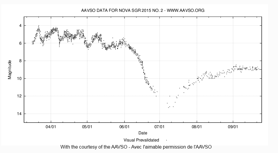 Nova SGR 2015 n°2 magnitude evolution